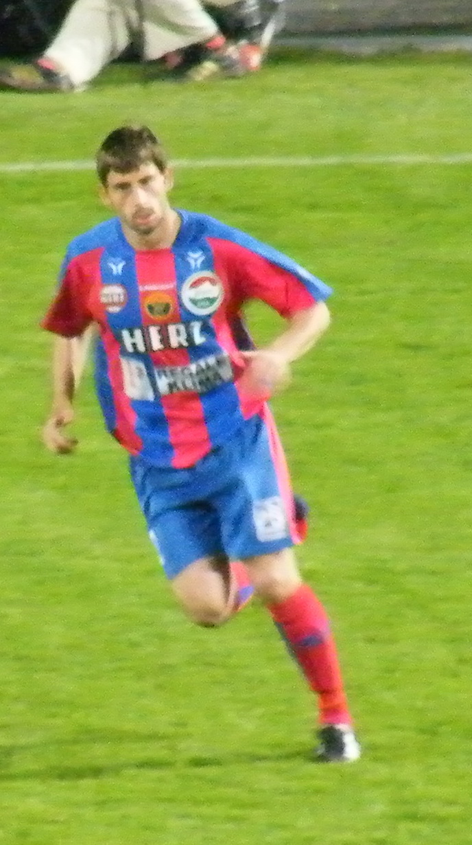 Ljubiša Vukelja football player